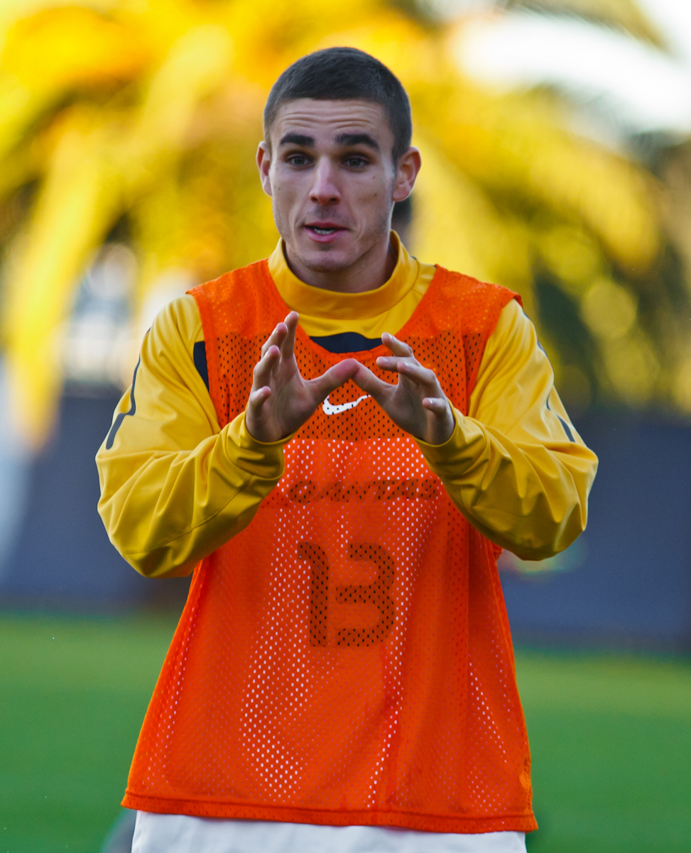 Diogo Ferreira warming up for the Australian Olympic Football team in 2011 at Gosford, New South Wales.